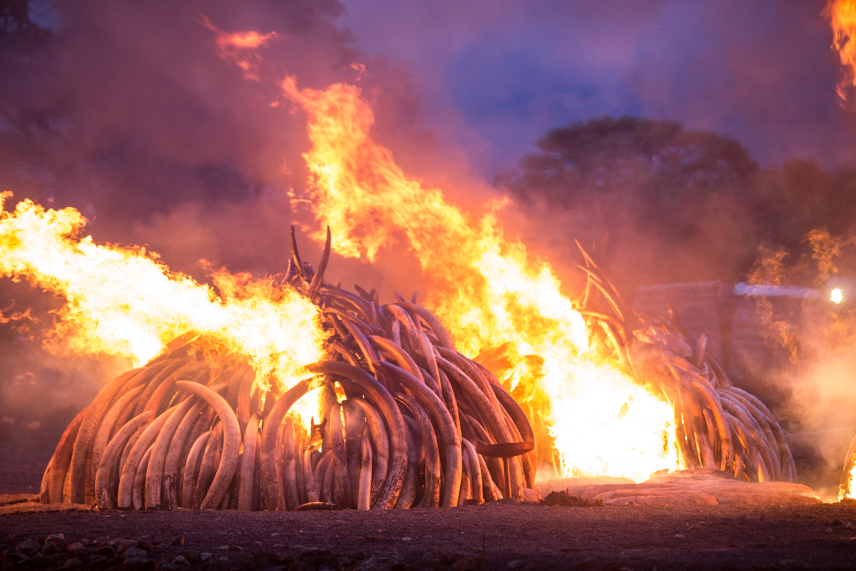 105 tons of ivory and 1 ton of rhino horn burn in Nairobi National Park on 30th April 2016. They were set ablaze by President Uhuru Kenyatta in the largest ivory burn in hisory.